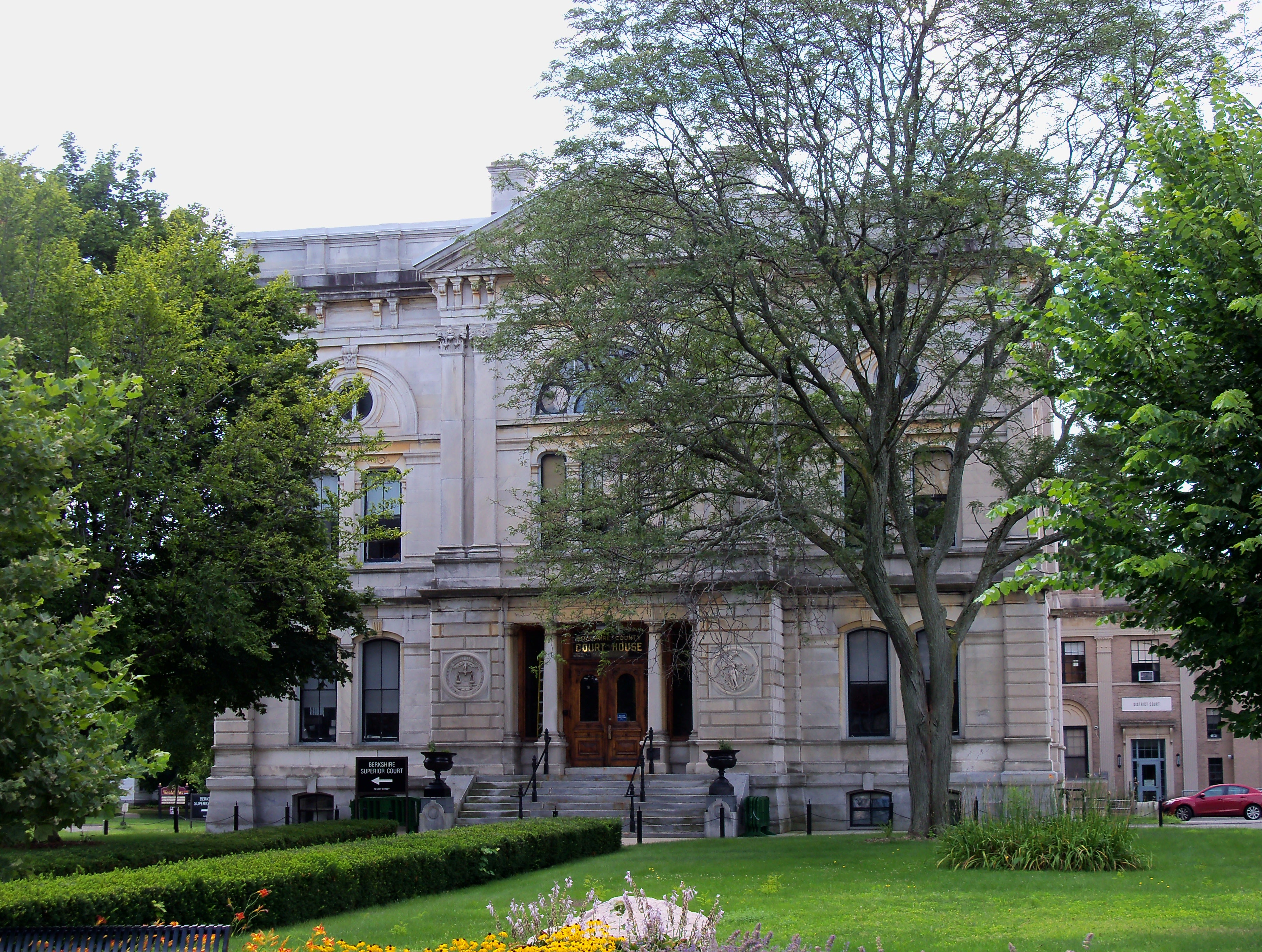 Berkshire County Courthouse in Pittsfield, Massachusetts, USA.